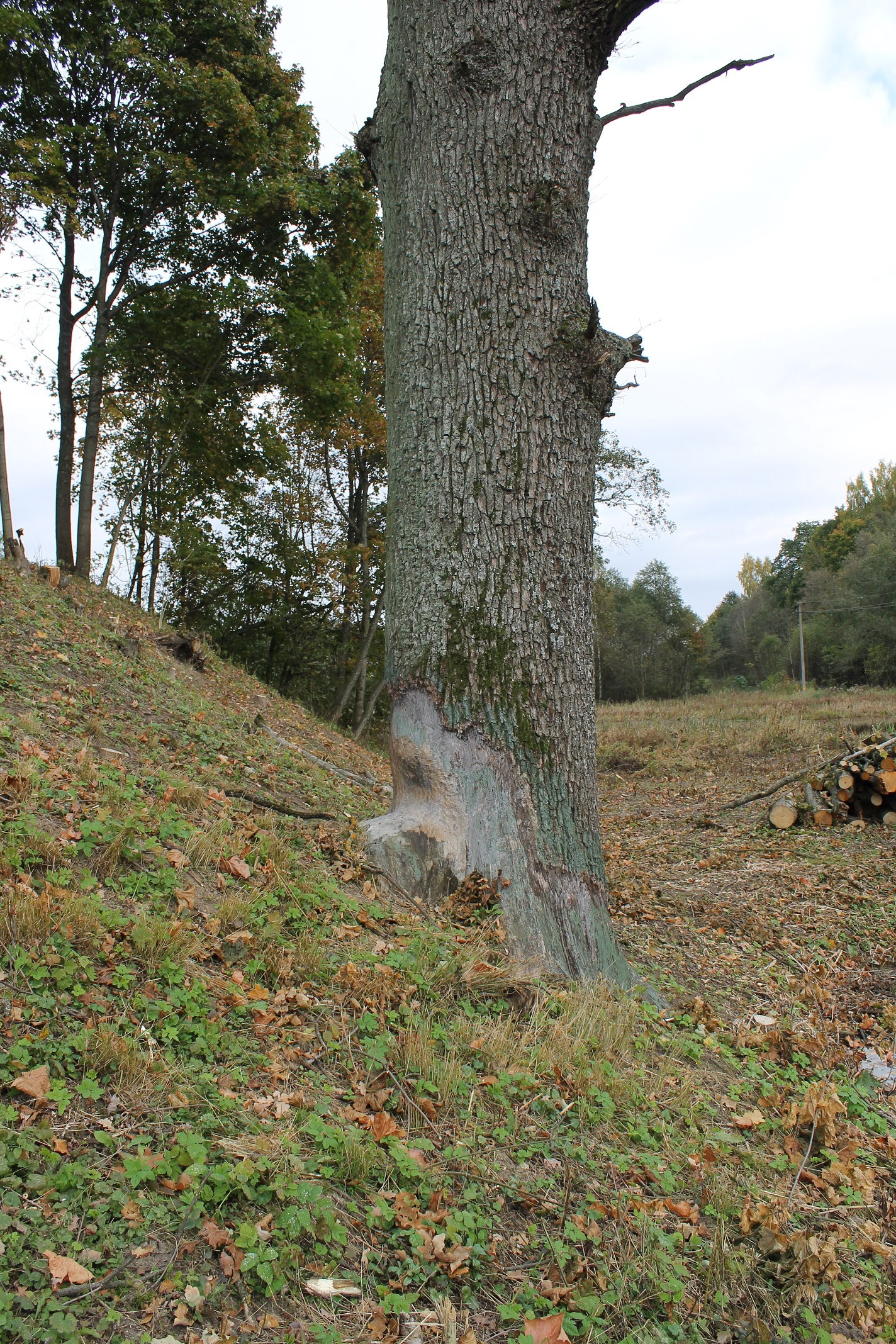 Plunge Hillfort, Plunge district, LithuaniaLietuvių: Plungės piliakalnis, Plungės rajonas, Lietuva